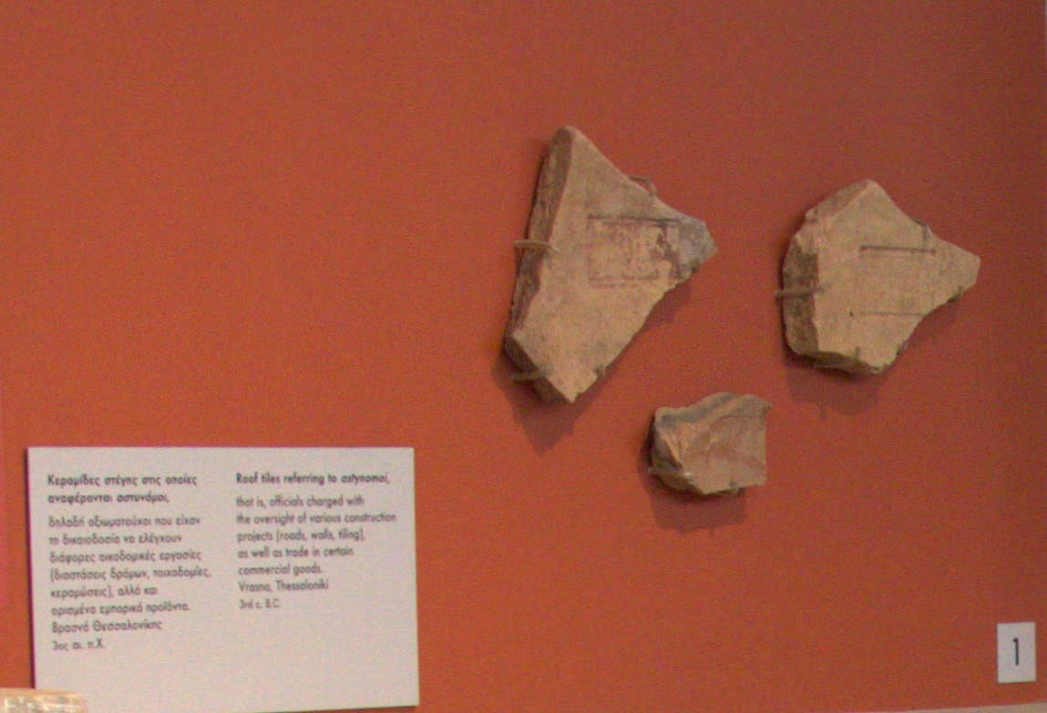 Detail cropped from Archaeological Museum of Thessaloniki, Greece (8724618785).jpg.